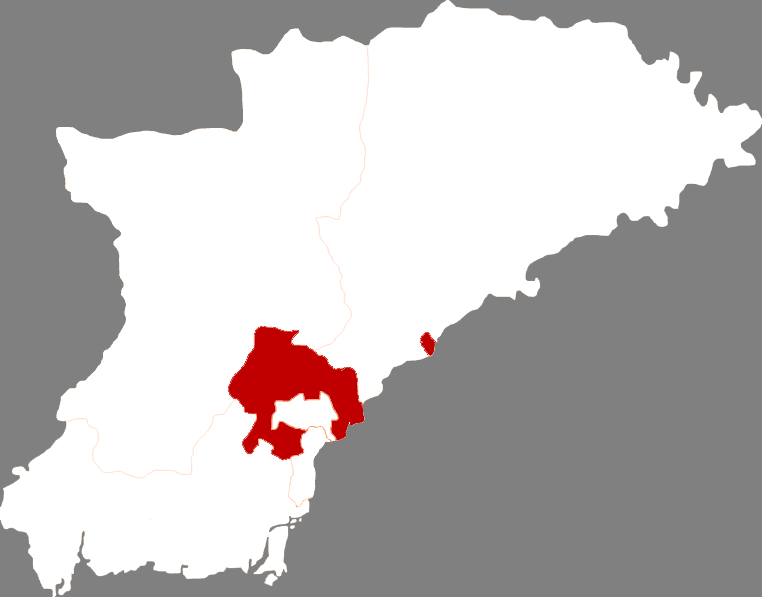 Location of Zhen'an district in Dandong City, China